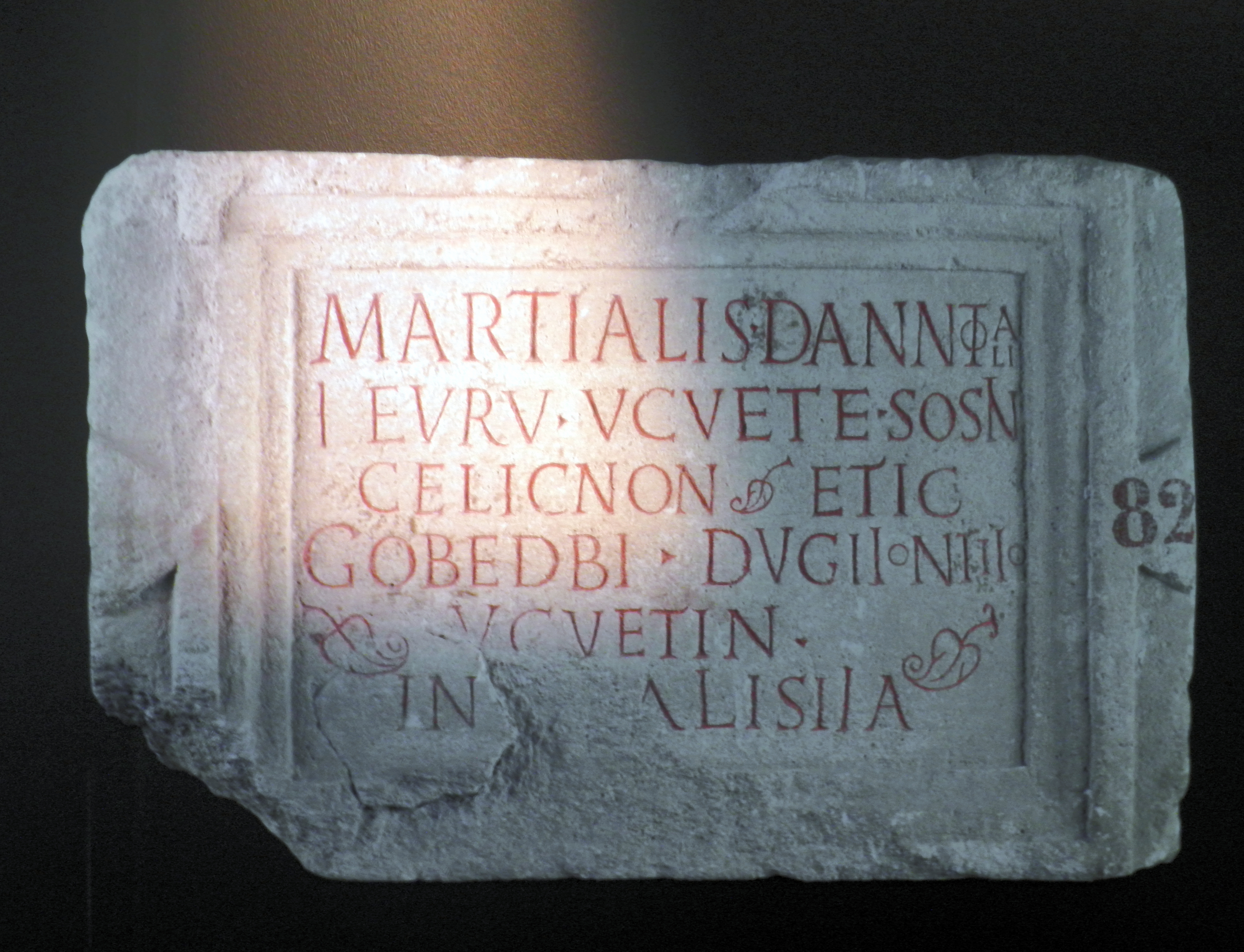 Stone inscription mentioning Alesia, Interpretation Centre of the Muséo Parc, Alésia